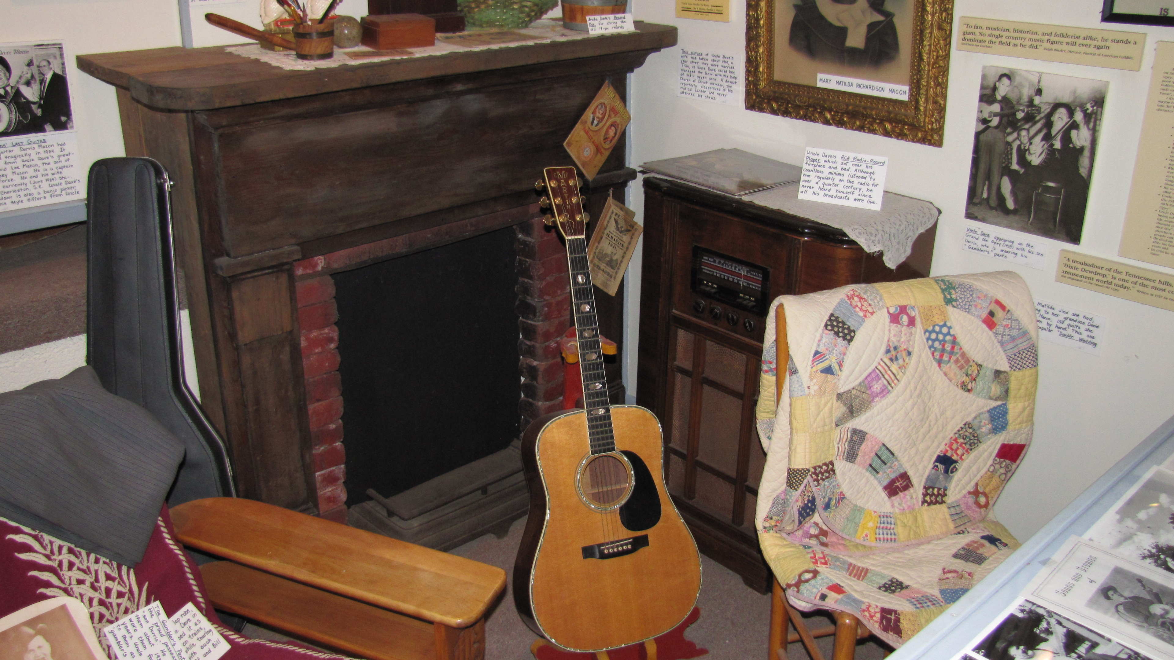 Uncle Dave Macon display at the Museum of Appalachia in Norris, Tennessee, USA. The display shows some of Macon's furniture and a guitar once owned by his son, Dorris. This display is located on the first floor of the museum's "Appalachian Hall of Fame" building.